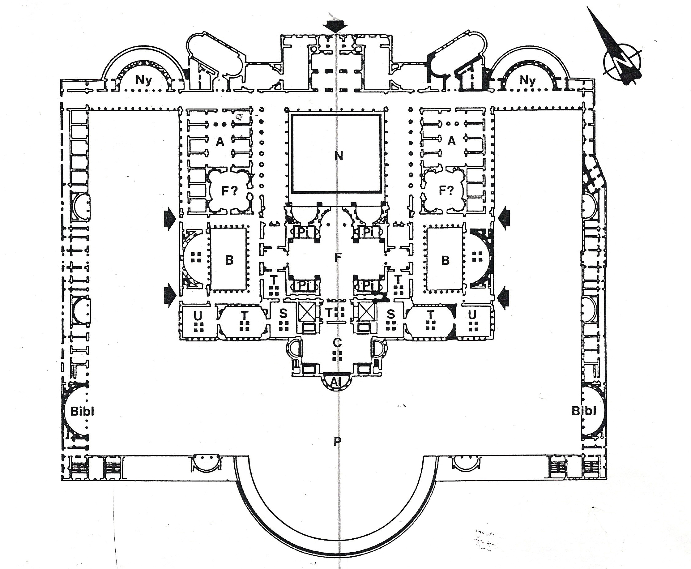 Les thermes de Trajan à Rome.